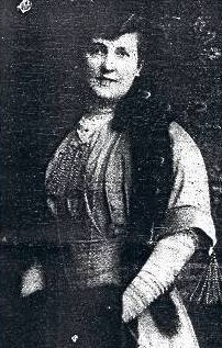 Antoinette Flegenheim, survive woman of Titanic